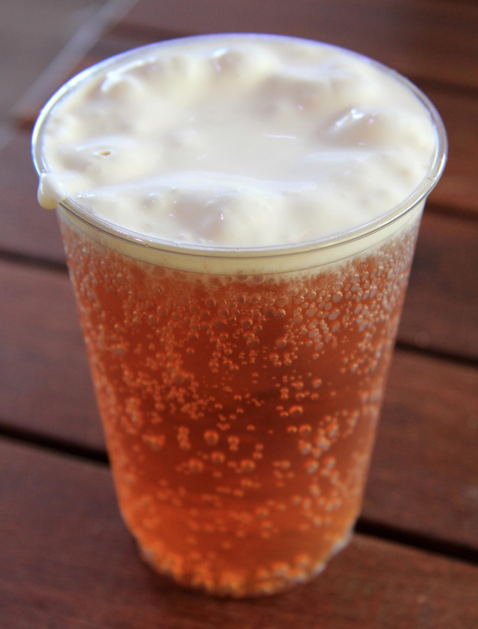 Warner Bros. Studio Tour London: The Making of Harry Potter.